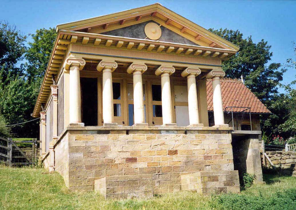 The Pigsty, North Yorkshire, England